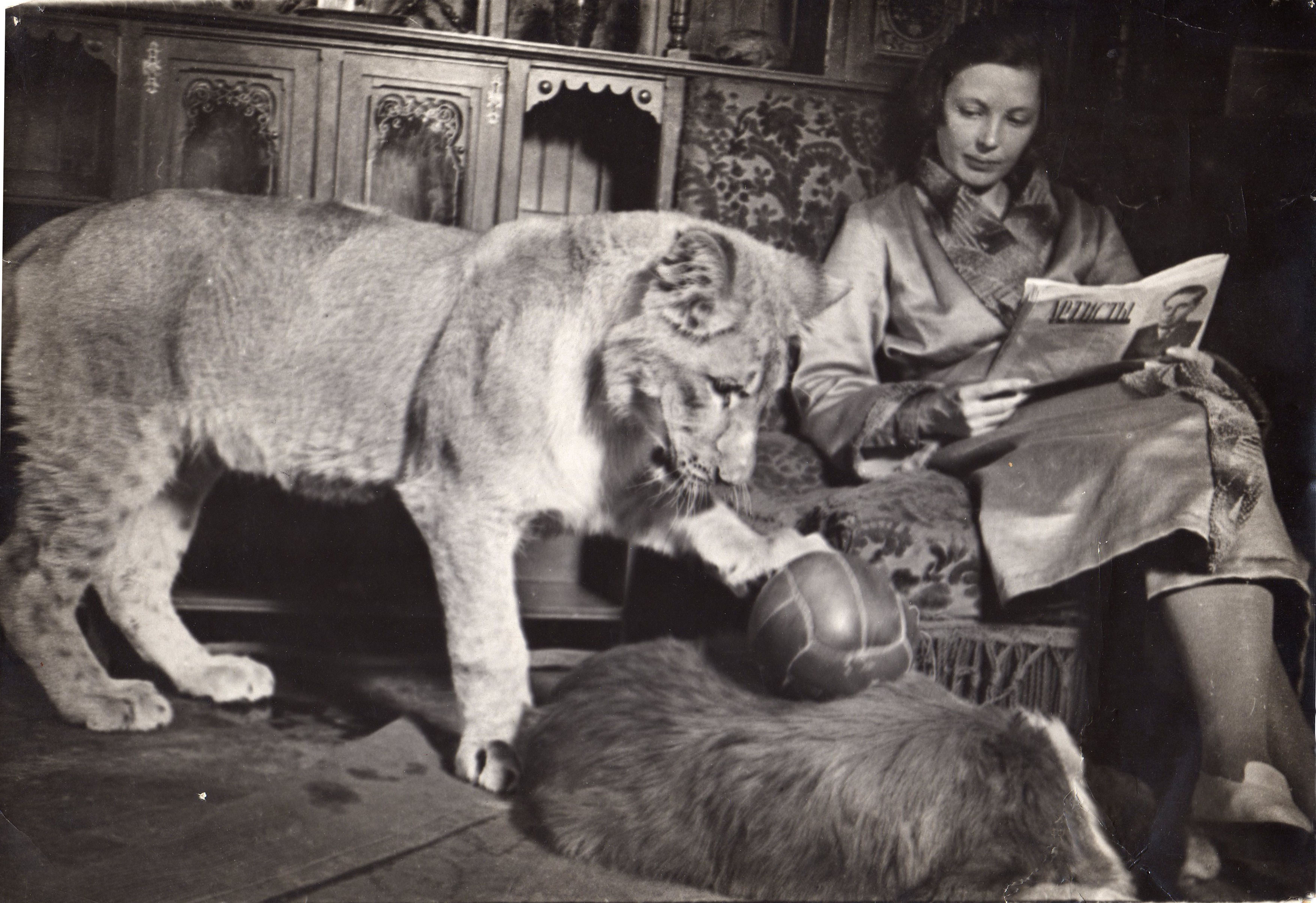 Soviet children's literature writer, naturalist Vera Chaplina (1908 – 1994) with lioness Kinuli at home. Moscow, spring 1936.